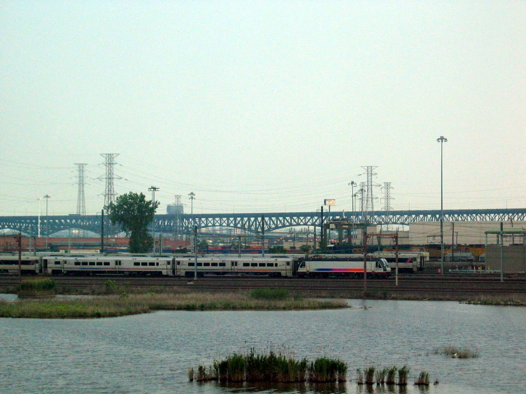 View of the Meadowlands Maintenance Facility from a passing New Jersey Transit train. Visible is an ALP46 push-pulled train in storage at the facility.